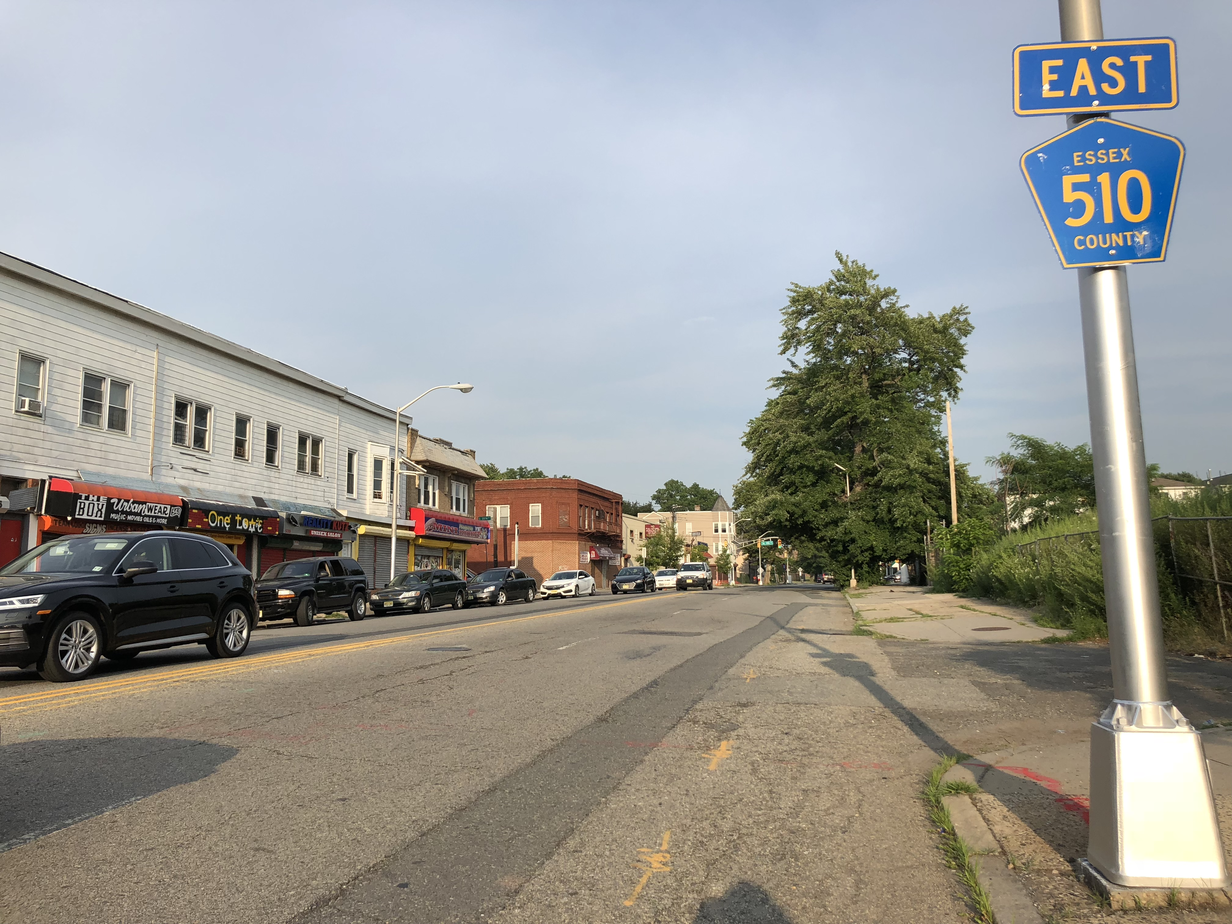 View east along Essex County Route 510 (South Orange Avenue) just east of Essex County Route 509 (Grove Street) in Newark, Essex County, New Jersey